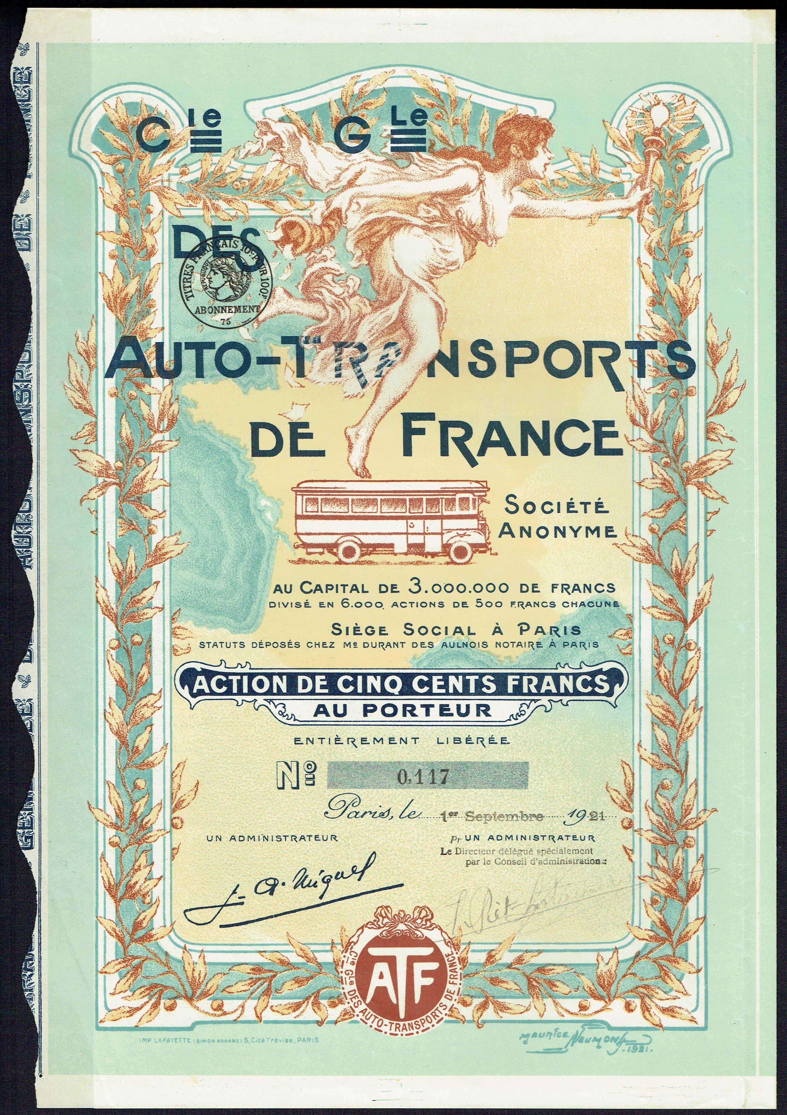 Share of the Auto-Transports de France S. A., issued 1. September 1921